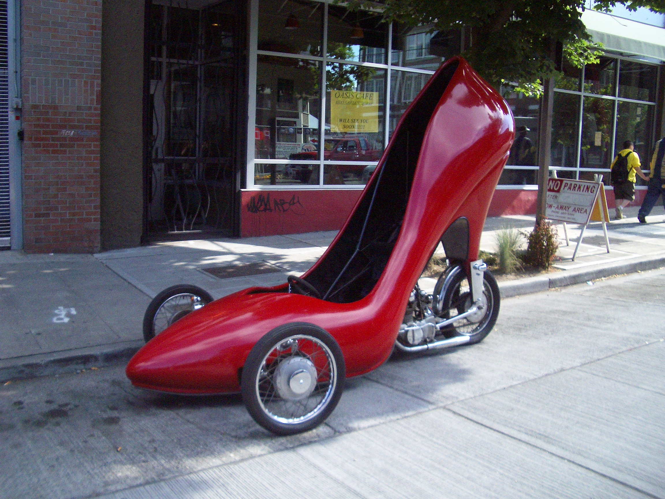 big-shoe-tricycleGay Pride Comes Down to This Shoe Car